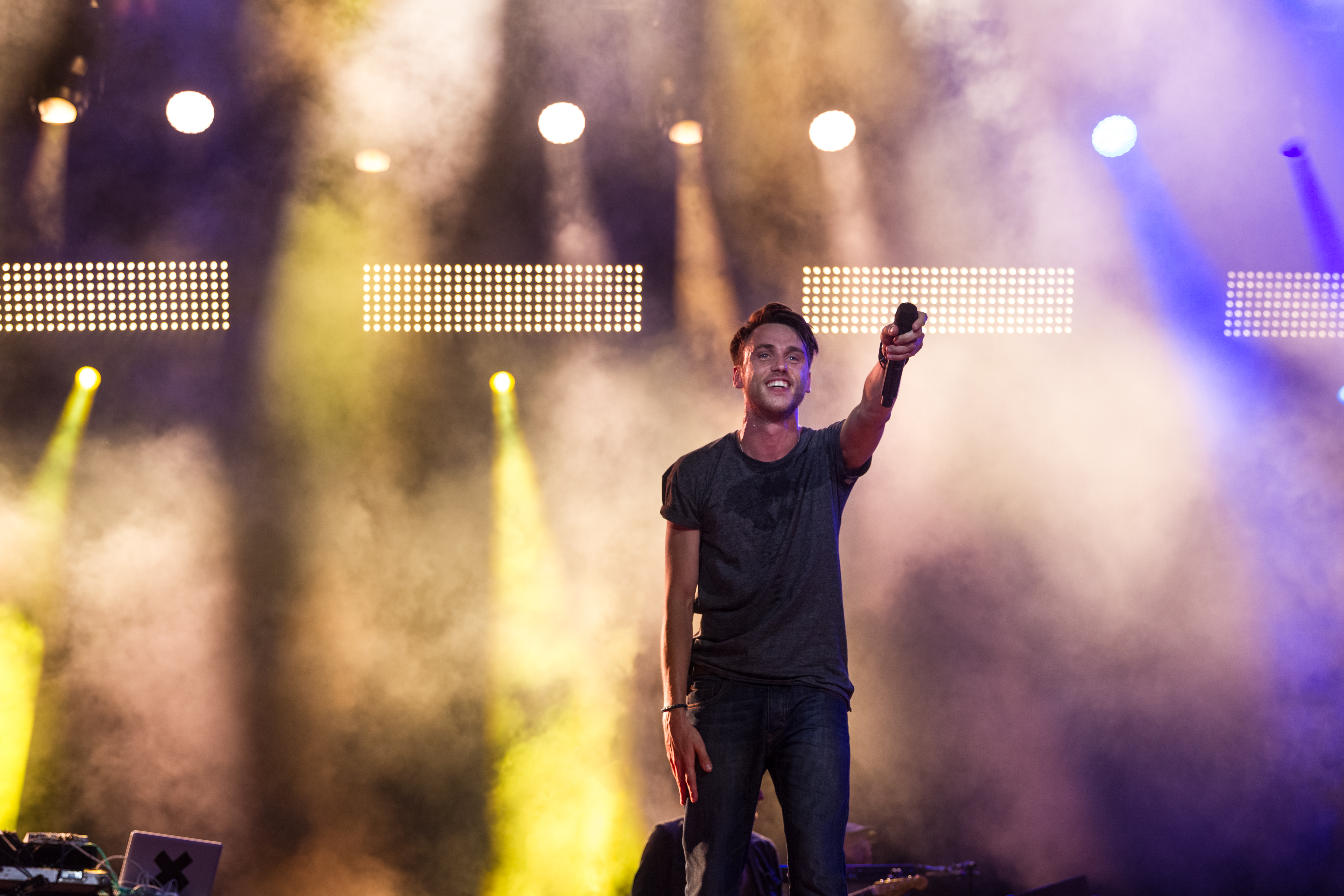 Clueso - Rock am Ring 2015